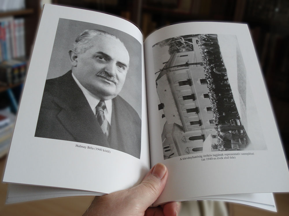 Béla Halmay, Mayor of Miskolc in a book of Krisztián Kapusi